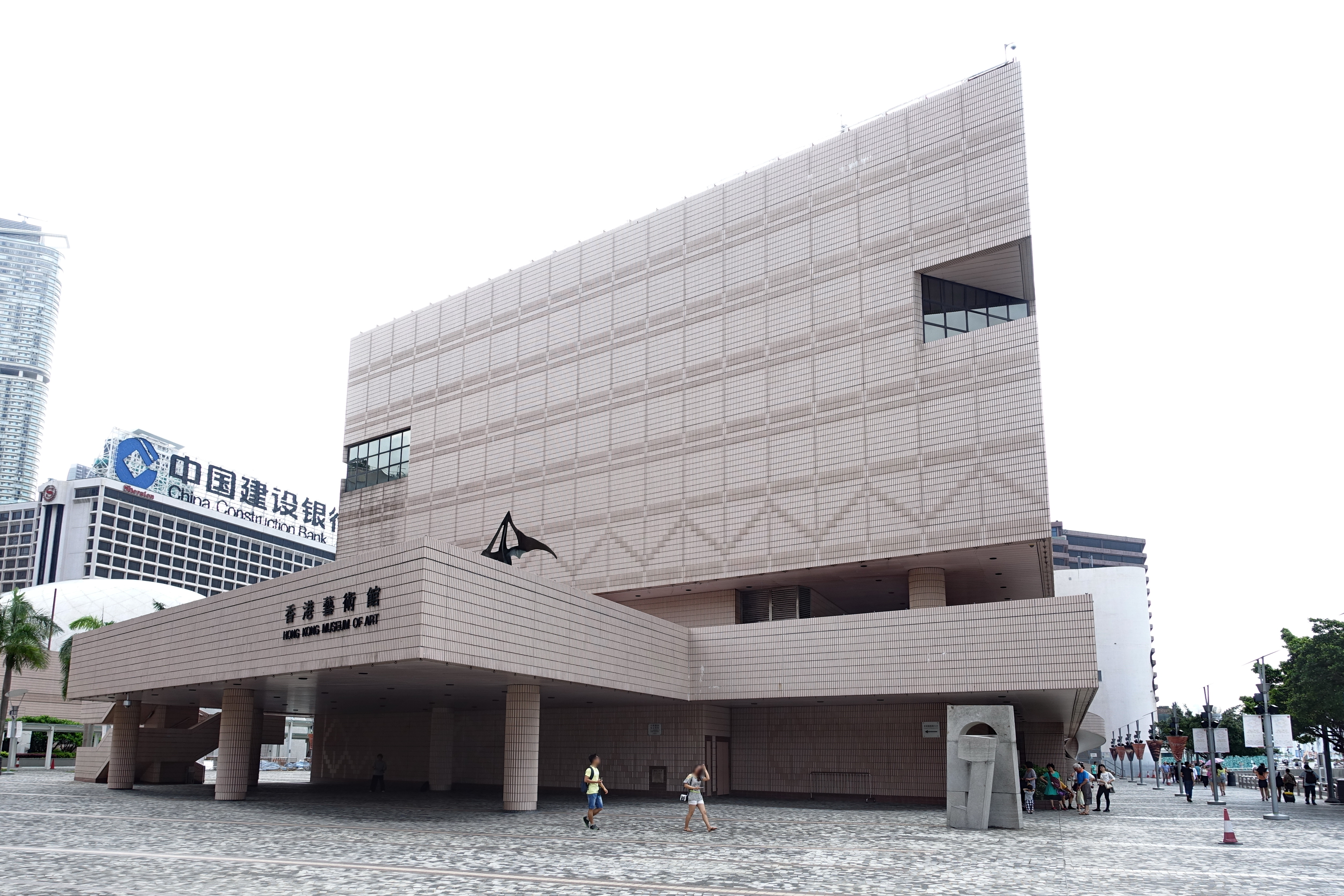 Hong Kong Museum of Art, west side view, Kowloon, Hong Kong.